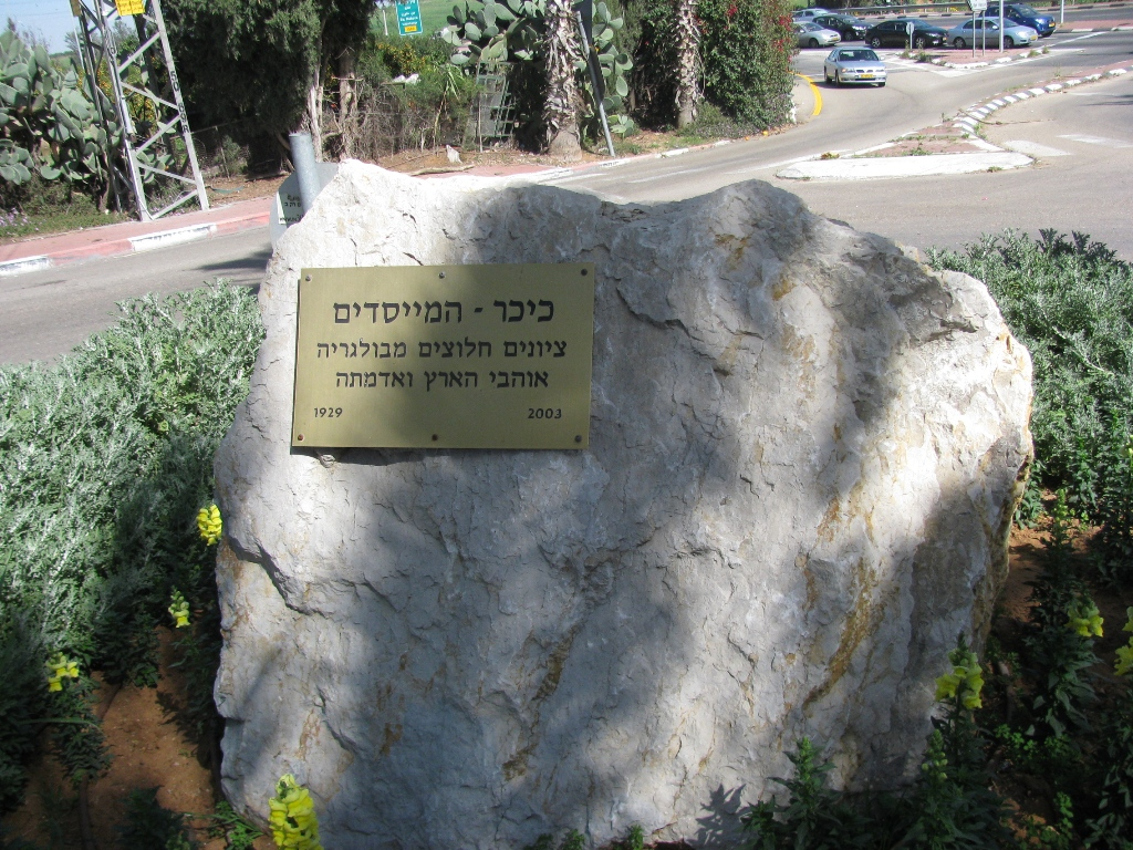 Founders Memorial Beit-Hanan